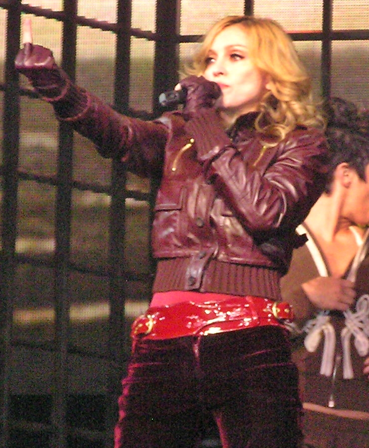 Madonna performing Sorry in Fresno, California.